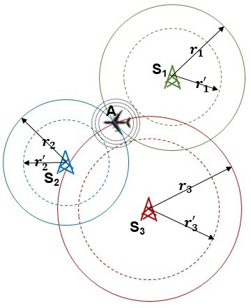 Illustration of multilateration surveillance system time-of-transmission (TOT) algorithm concept